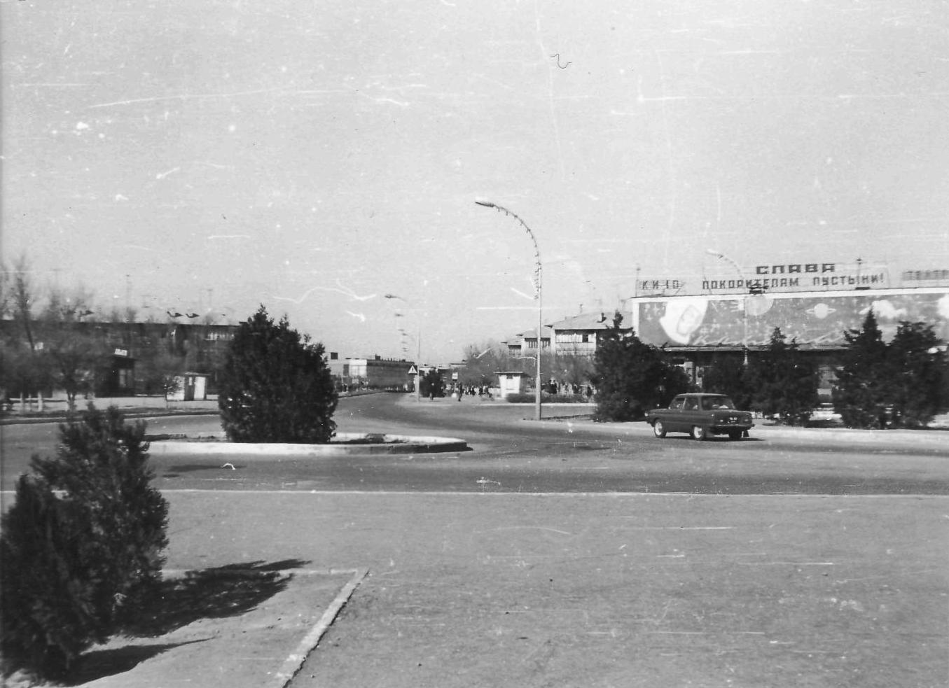 Uchkuduk. From City Centre. Cinema «Comet»